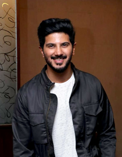 Indian actor Dulquer Salmaan promoting his Hindi language film Karwaan in July 2018